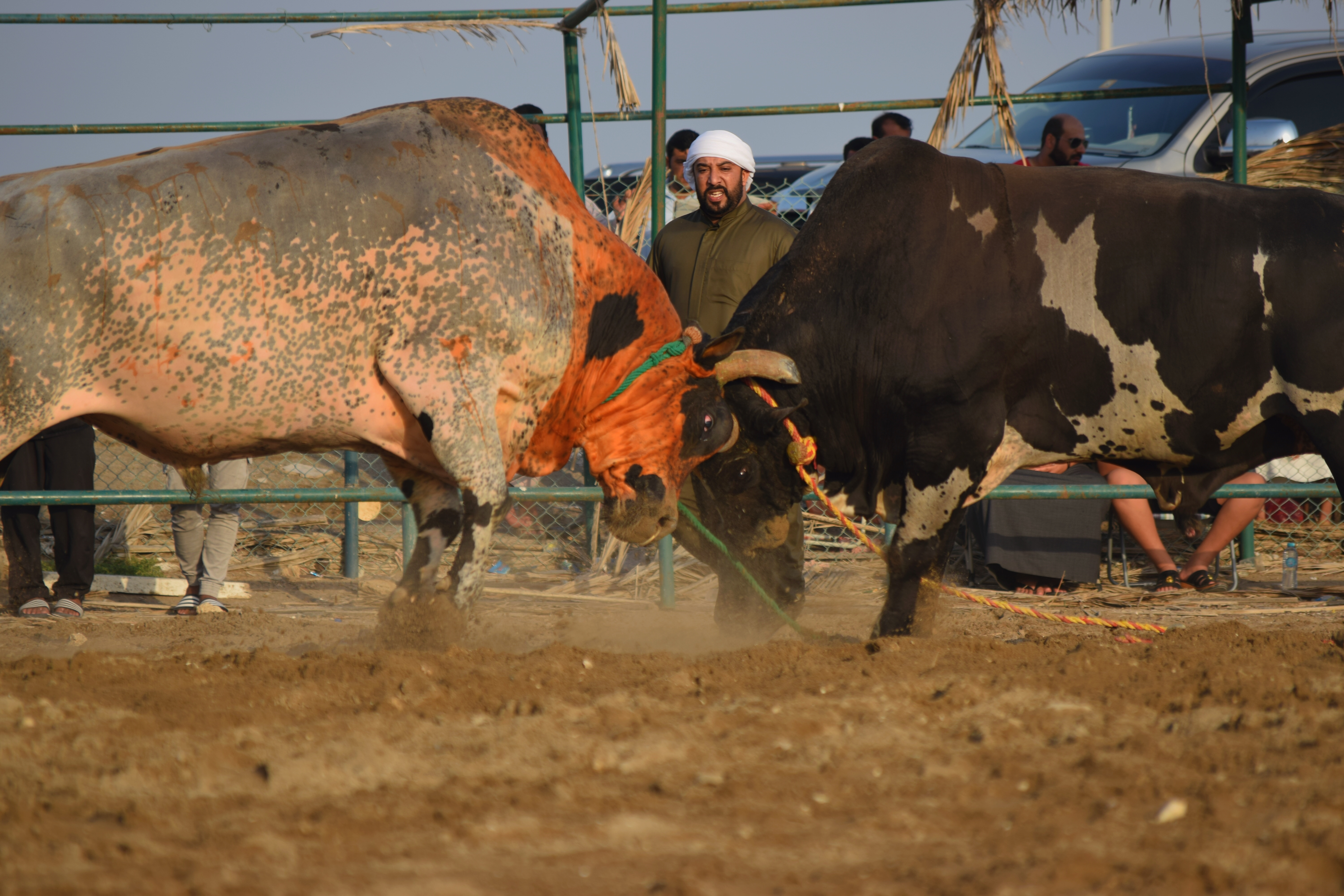 At five o’clock, the competition kick starts as the first pair of bulls are brought inside the huge and double-fenced ring. The bulls huff and puff as they lock horns and engage in a thrilling tug of war that goes on for two minutes, or as long as the round lasts. The bull which manages to push back it’s opponent is declared winner. The announcer keeps spectators entertained as well with their interesting commentary. There are ringmasters and judges who sit in the ring near the fight to decide the winner.